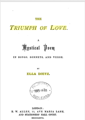 The Triumph of Love: A Mystical Poem in Song, Sonnets, and Verse, by Ella Dietz